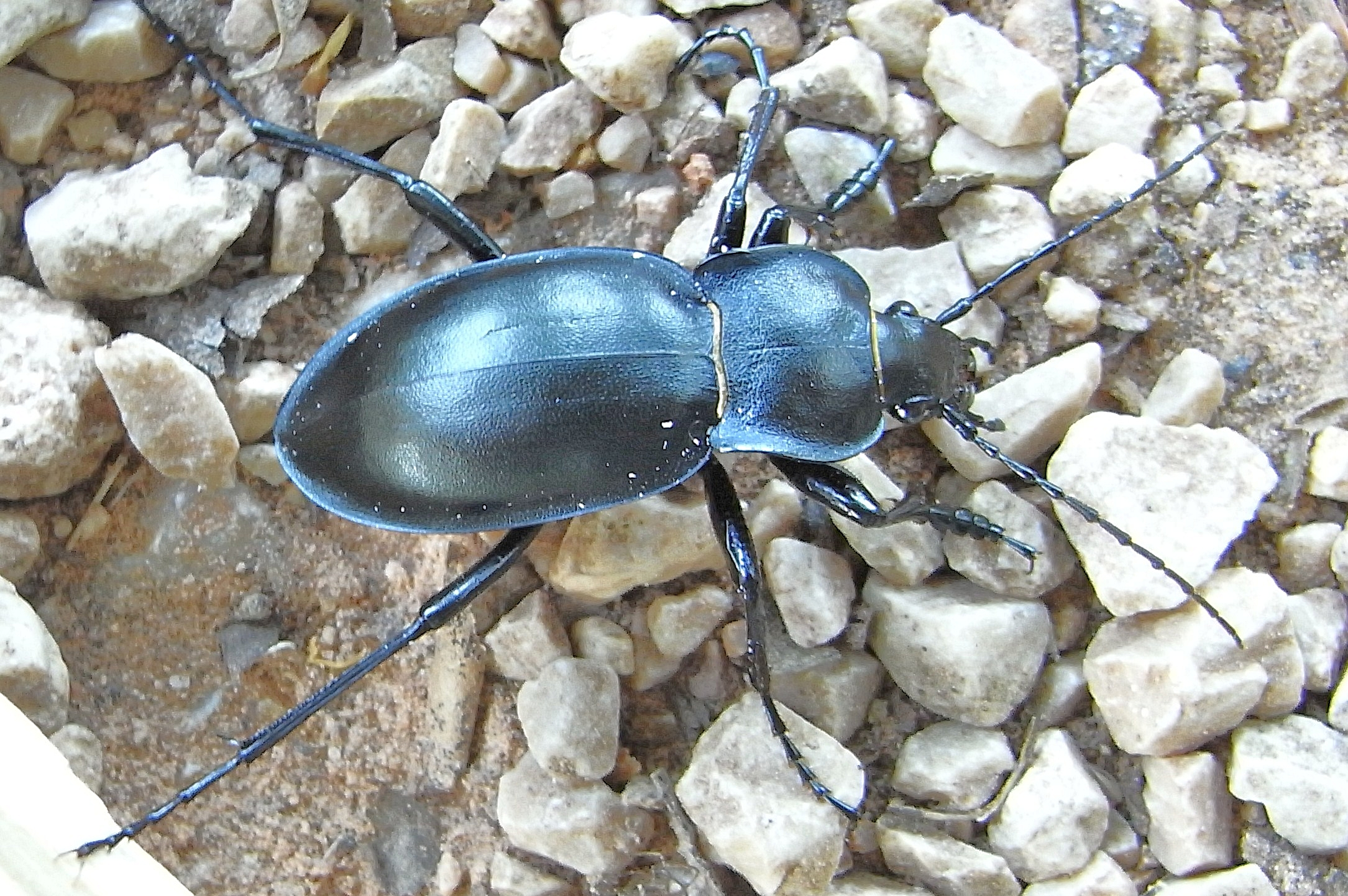 Carabus glabratus from Hungary, in Northern-Bakony-mountains at 2010-07-15 Ricoh R8